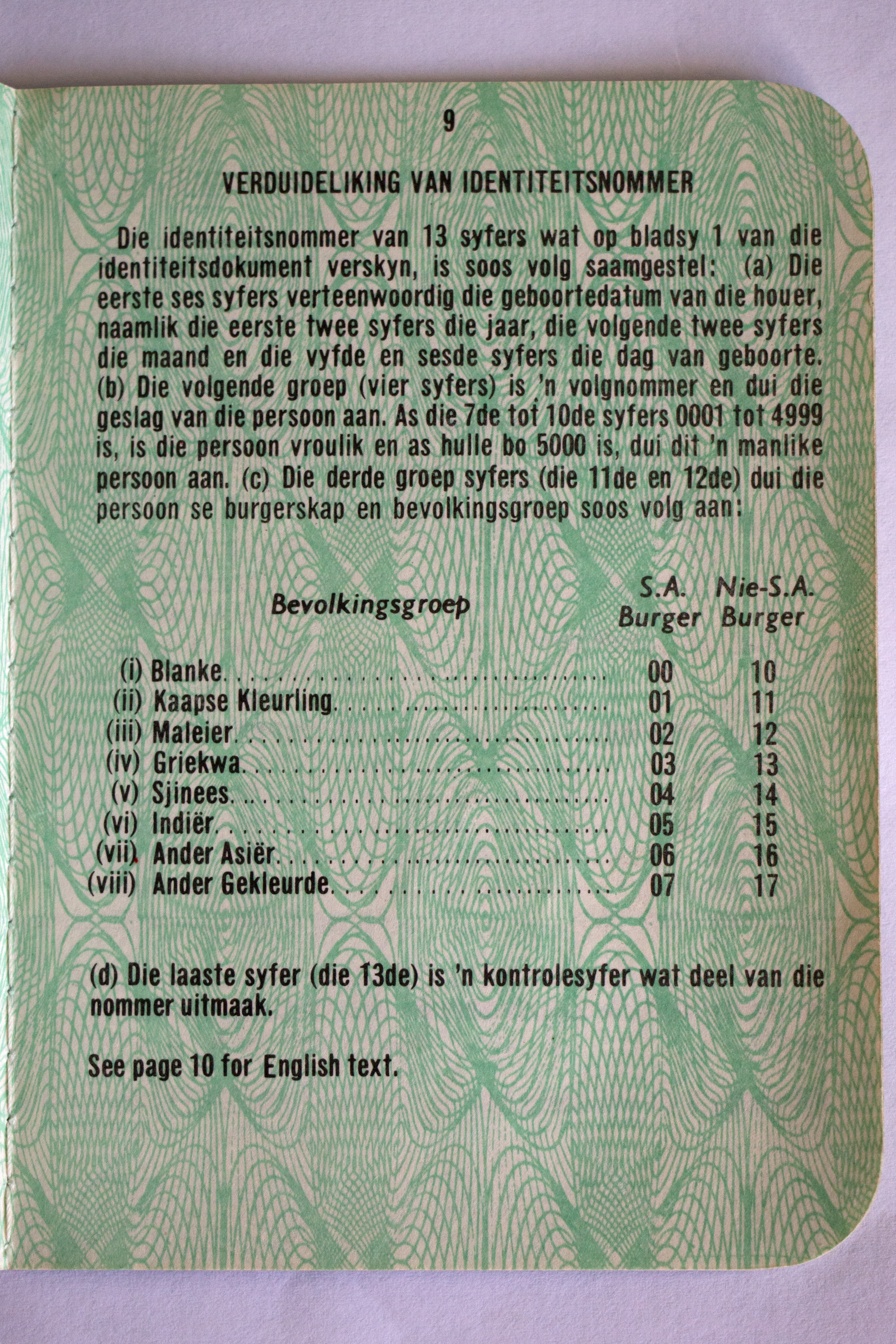 Explanation of South African identity numbers in an identity document during apartheid in terms of official White, Coloured and Indian population subgroups